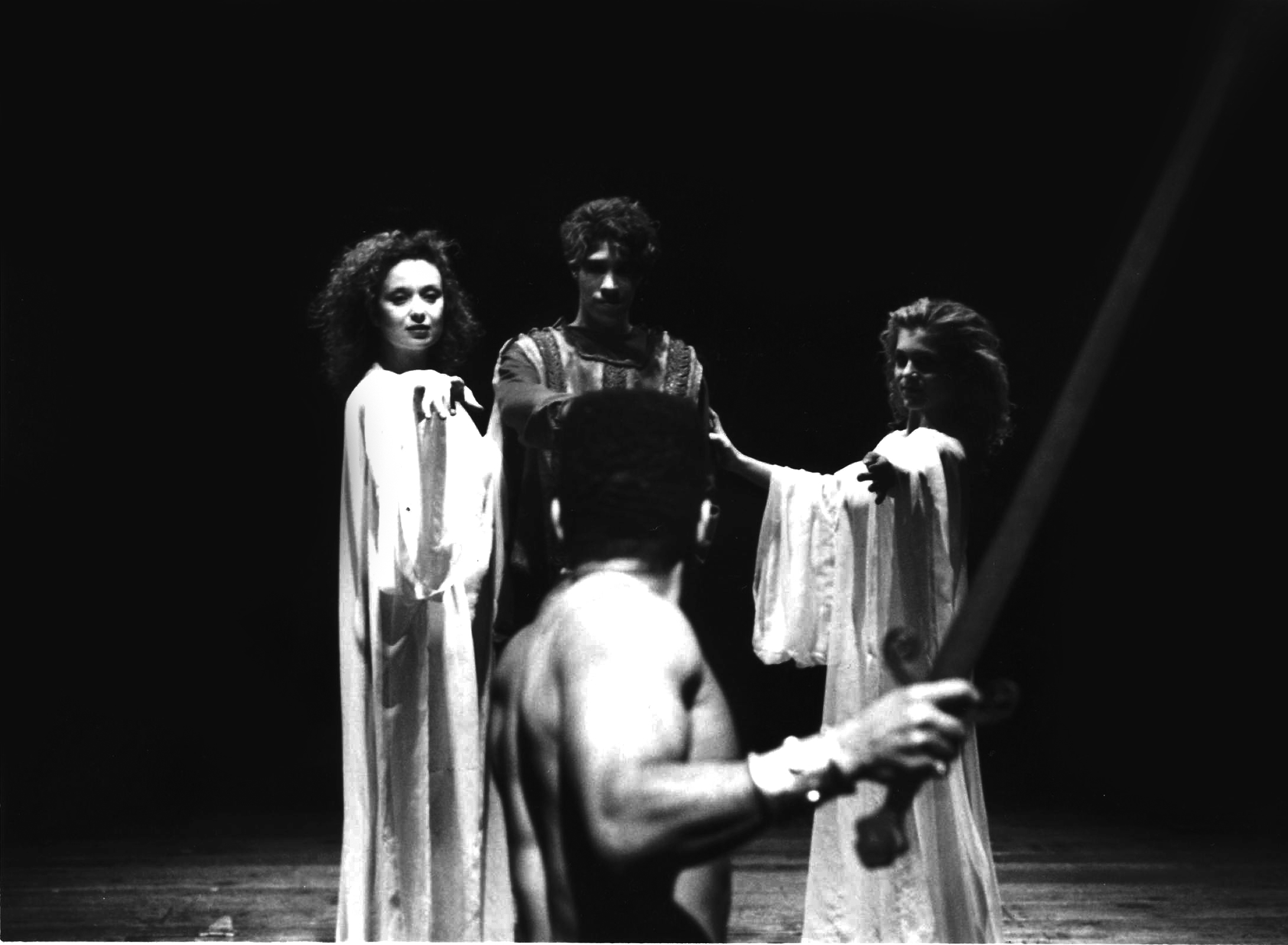 Production photo from play "Joan", by Linda Chambers and starring Rain Pryor. In this photograph are: Robin Skye, Zoe Trilling, Rain Pryor, and Tyrone Granderson Jones. Directed by Brad Mays, 2003.